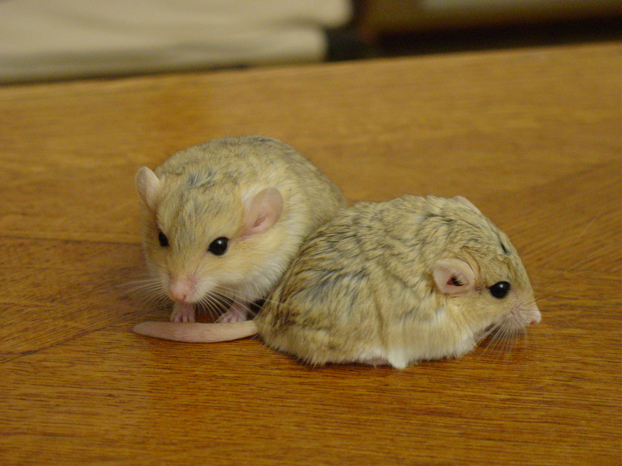 Fat-tailed Gerbils (Pachyuromys duprasi).